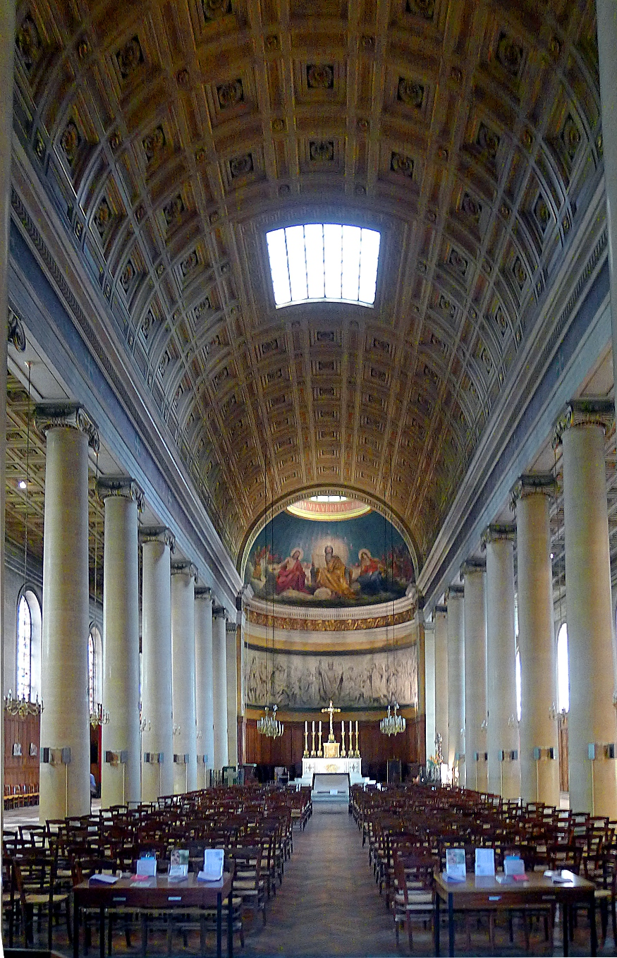 Saint-Denys-du-Saint-Sacrement church - Paris